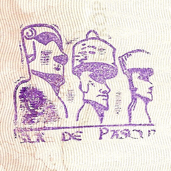 Passport Stamp from Easter Island